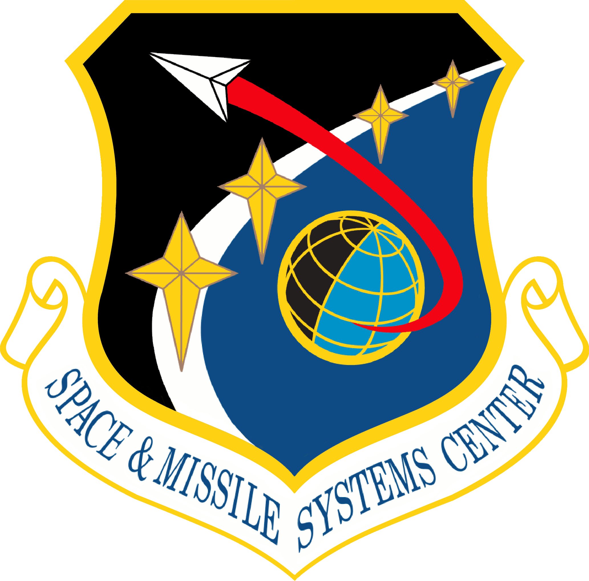 Emblem of the Space and Missile Systems Center of the United States Space Force